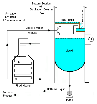 I drew this diagram of a fired reboiler, in use on an industrial distillation tower, using Microsoft's Paint program. I am User:mbeychok and the date is November 20, 2006. This image has also been uploaded into the English Wikipedia.